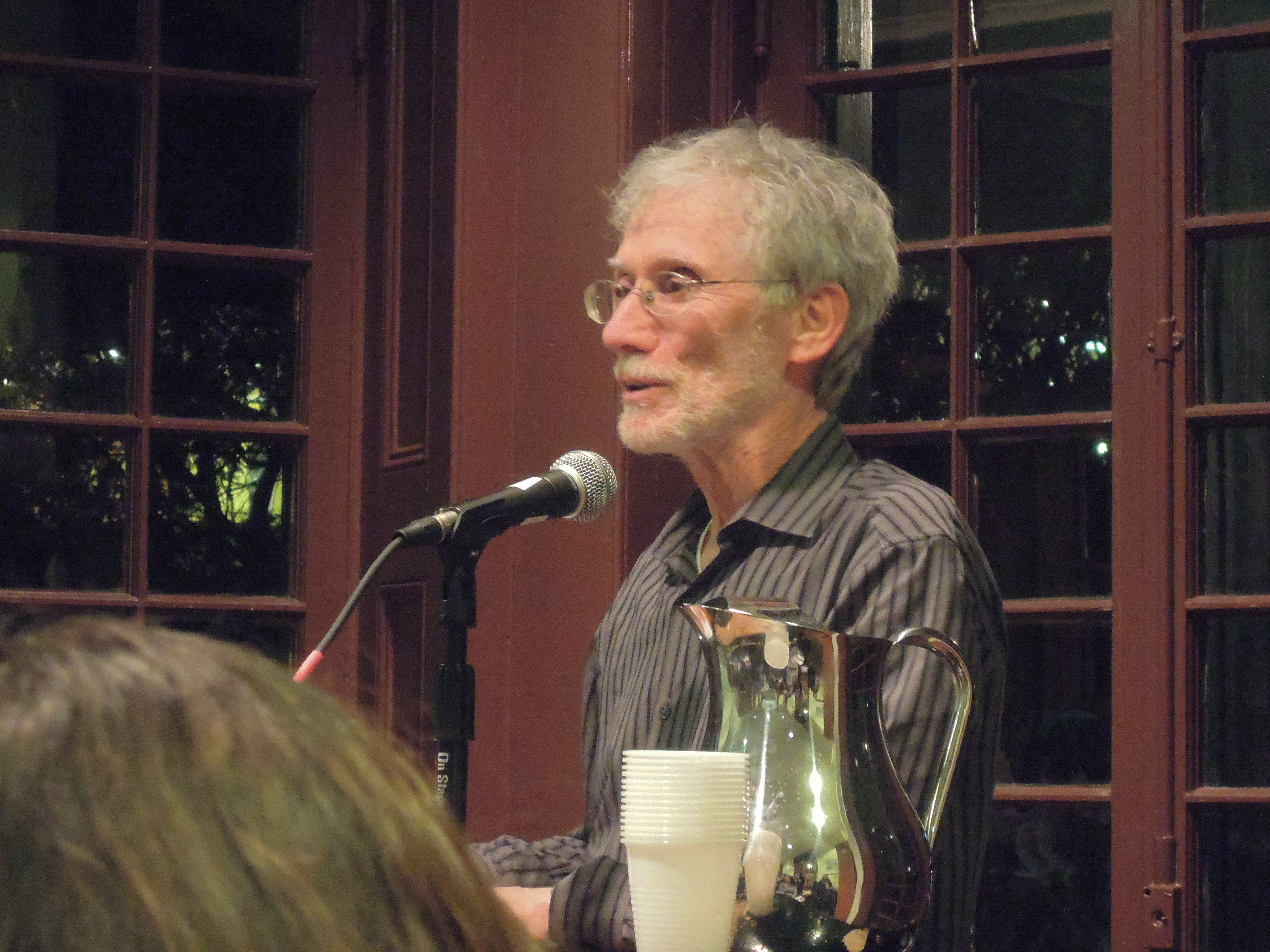 February 9, 2012 KWH Calendar